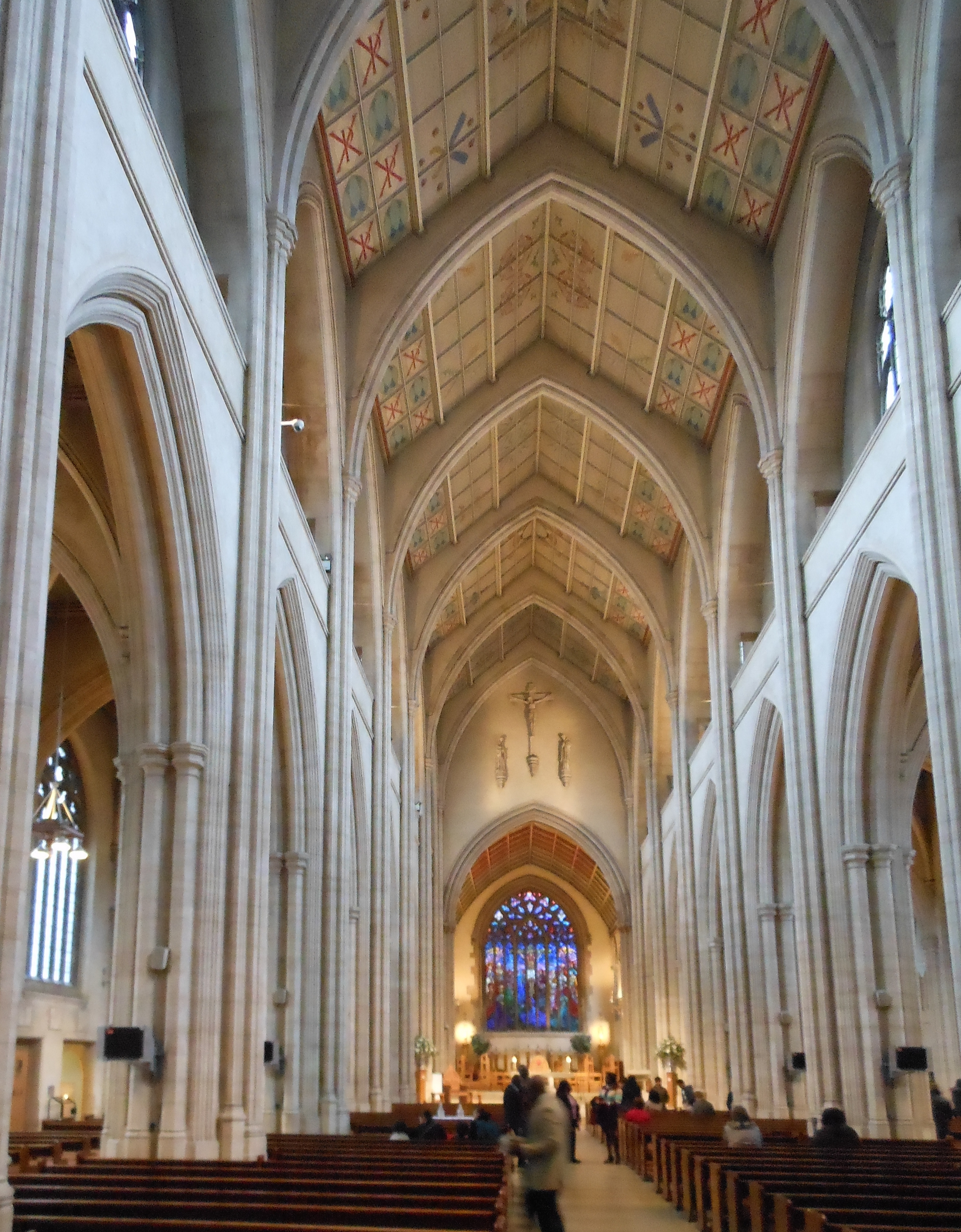 London, Southwark, St. George's Roman Catholic Cathedral, interior